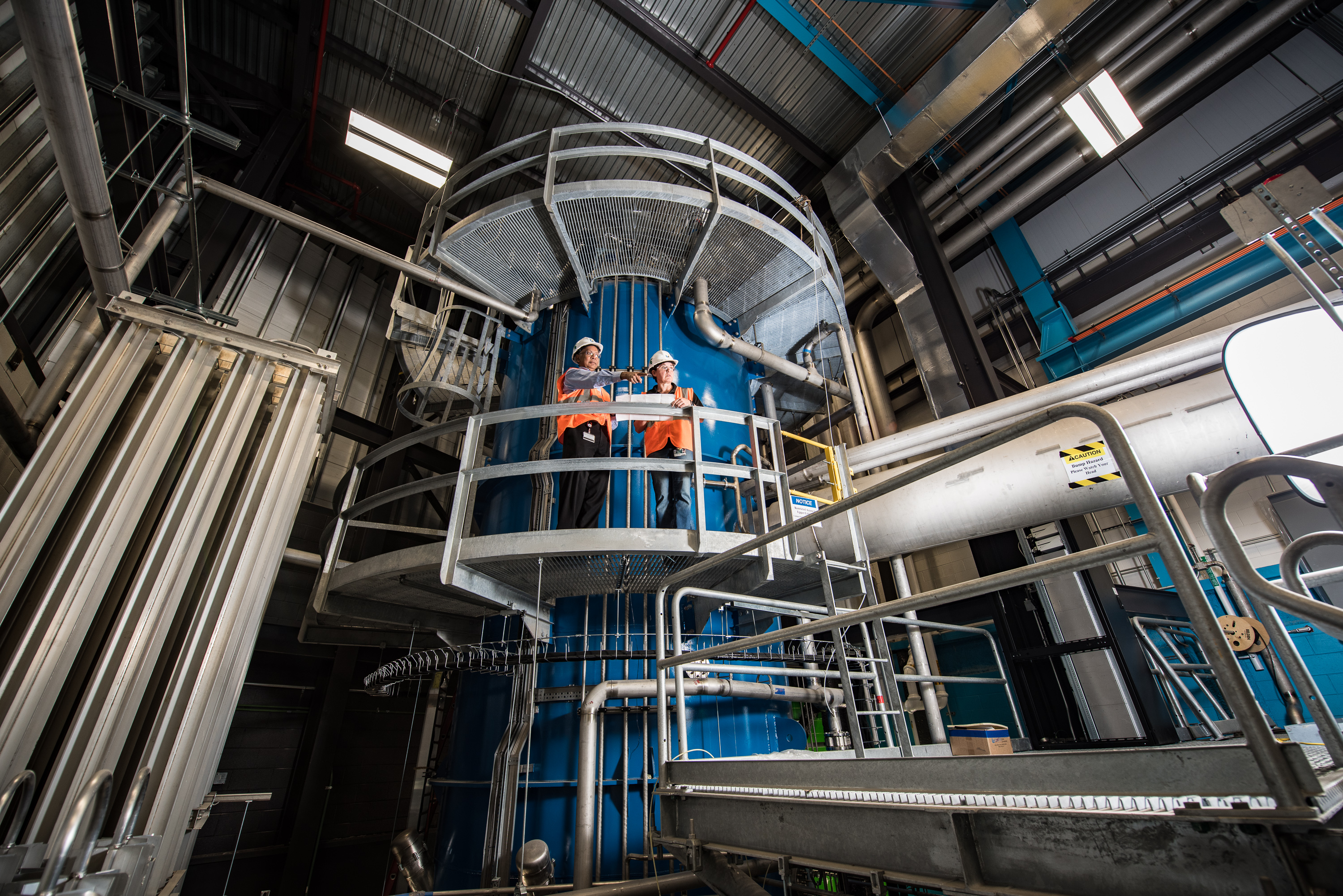 The FRIB cryogenic plant made its first liquid helium at 4.5 kelvin (K) on 16 November 2017. Photo courtesy of MSU Communications and Brand Strategy.